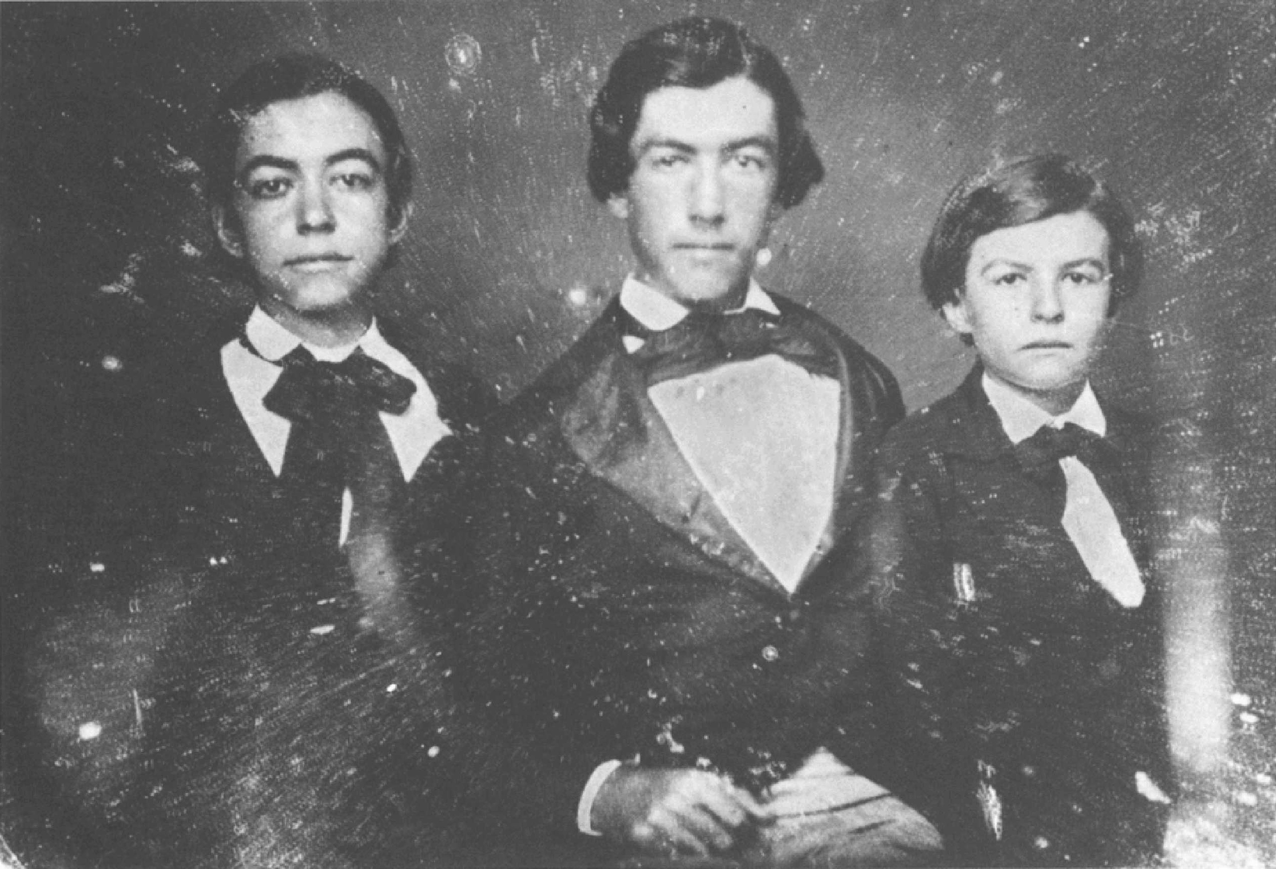 The Lyman brothers (from left): Frederick Schwartz (1837–1918), Henry Munson (1835–1904), and David Brainerd (1840–1914).